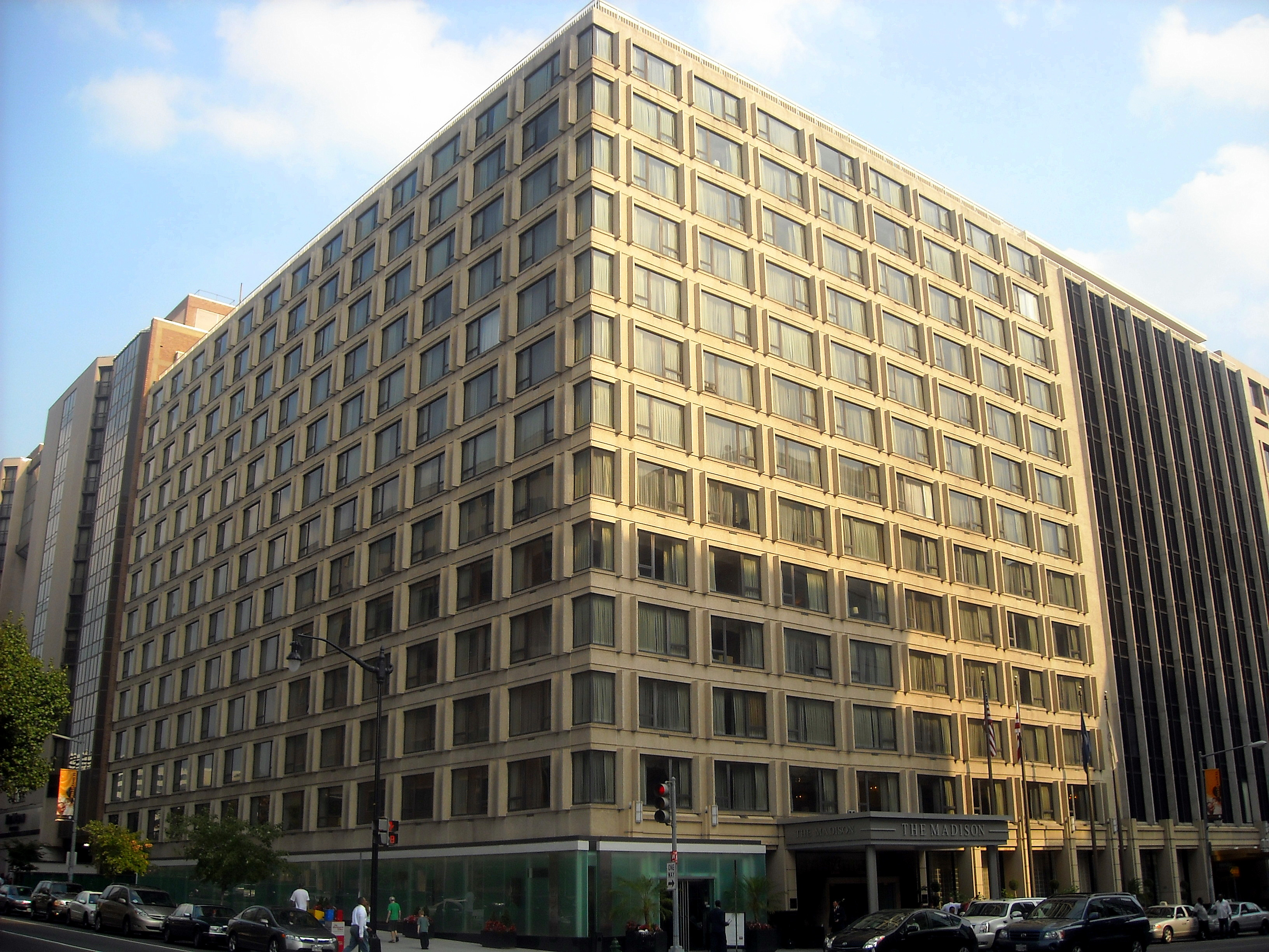 The Madison Hotel located at 1177 15th Street NW in downtown Washington, D.C.